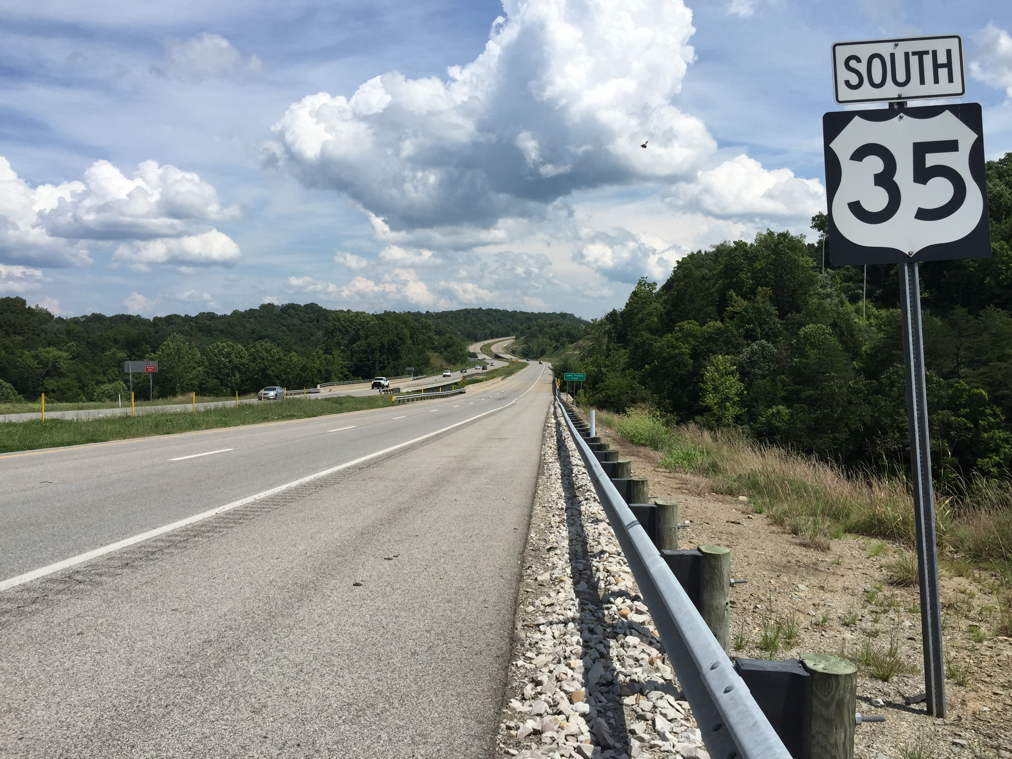 View south along U.S. Route 35 at Lower Five Mile Road (Mason County Route 3/6) in Couch, Mason County, West Virginia